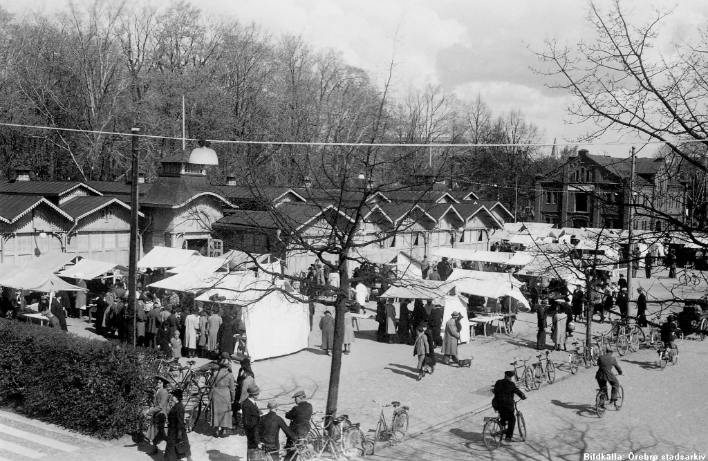 The marketplace "Hamnplan" in Örebro, Sweden